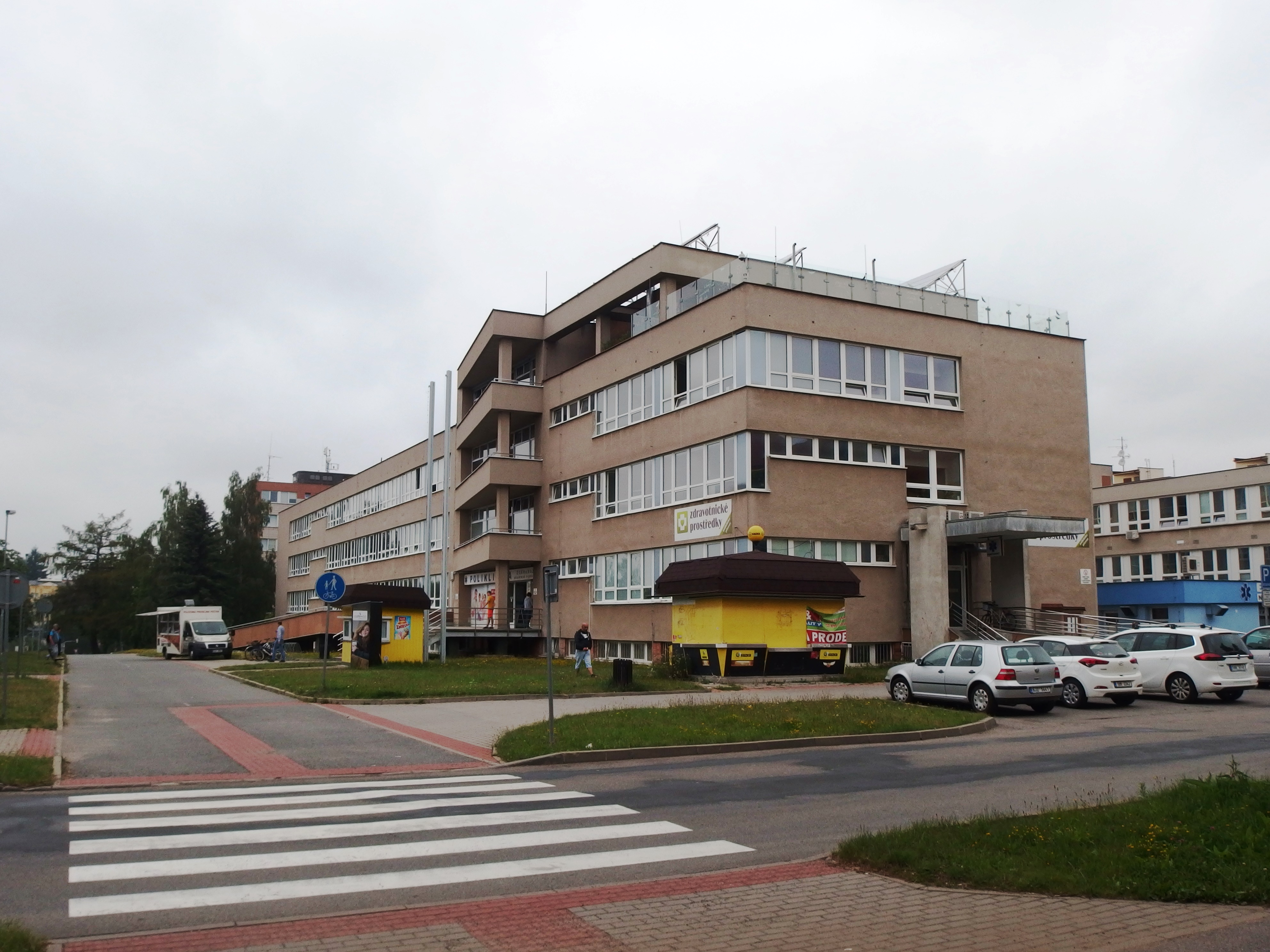 Žďár nad Sázavou, Czechia.